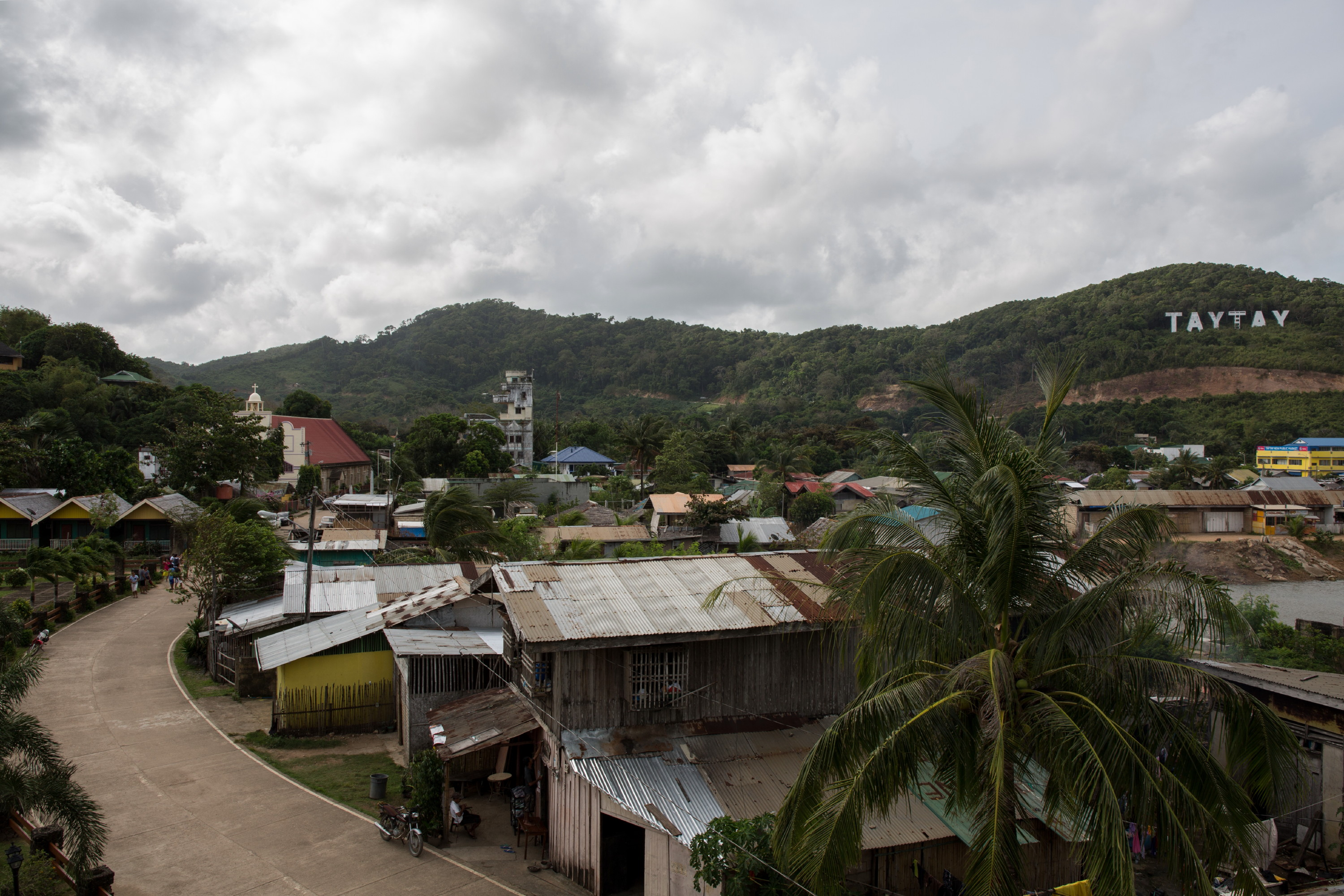 Municipality in Palawan, Philippines